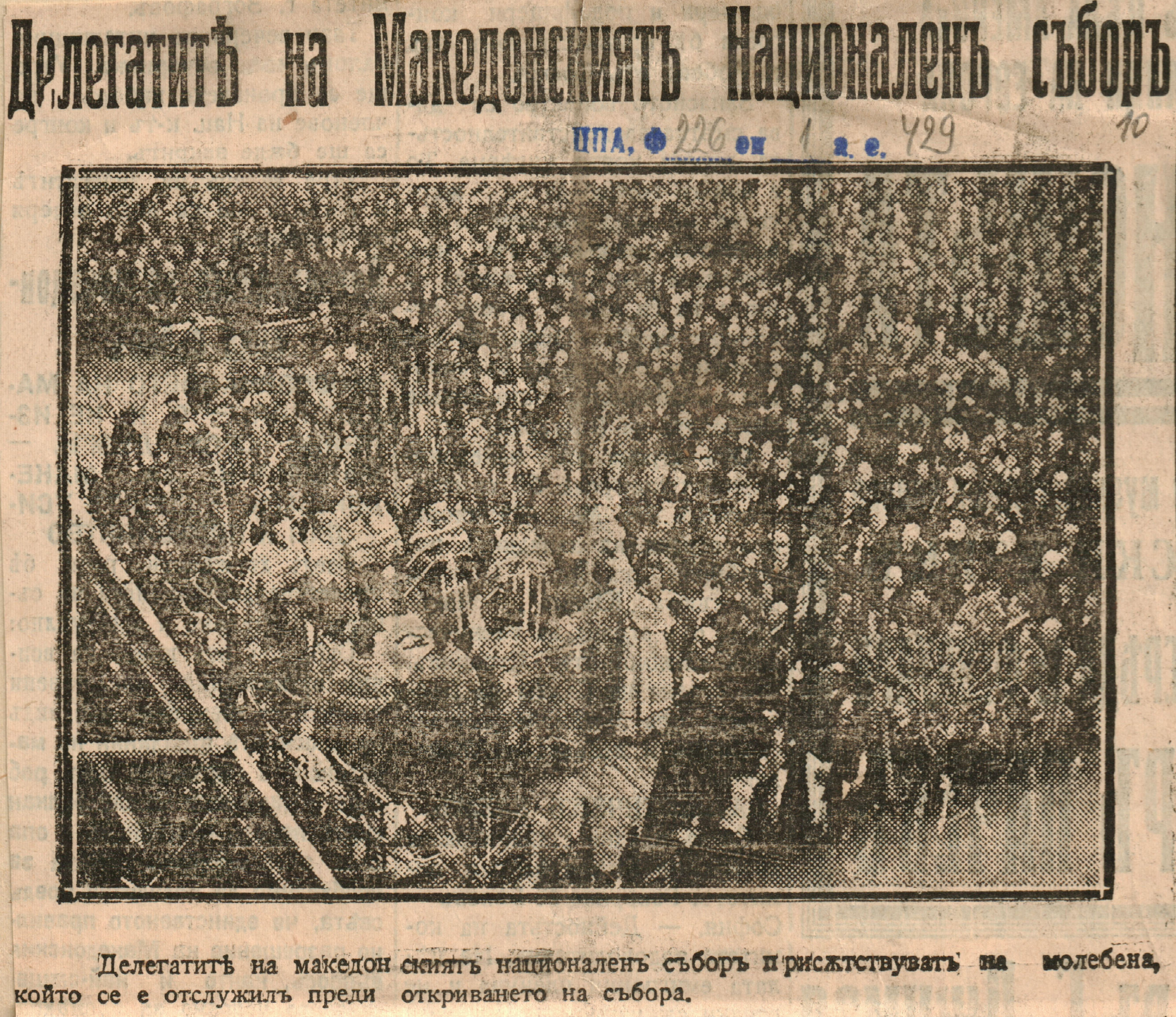 Photo from the Macedonian National Council, 1933 in Gorna Dzhumaya (Blagoevgrad).